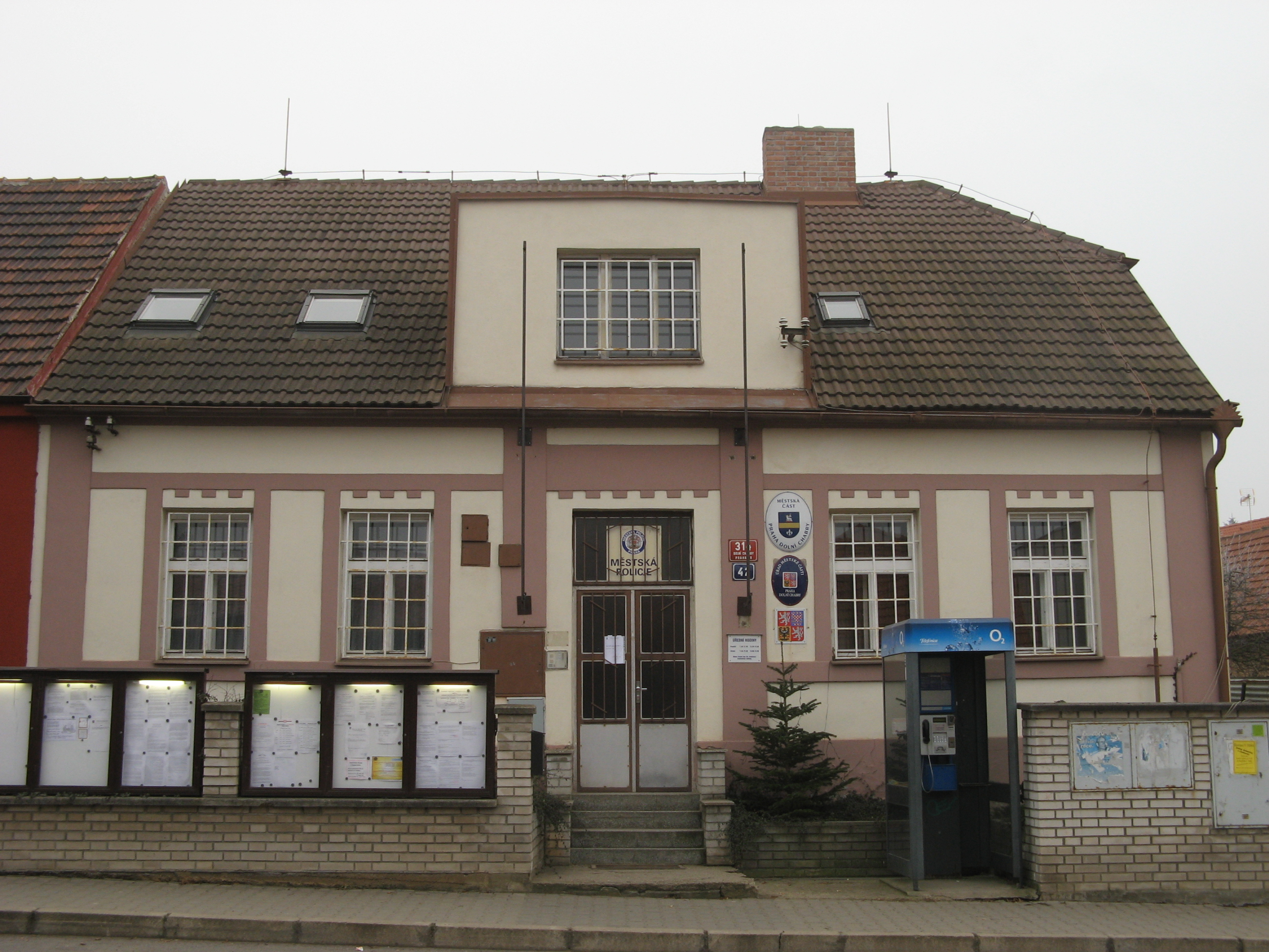 Prague-Dolní Chabry, municipal district office.